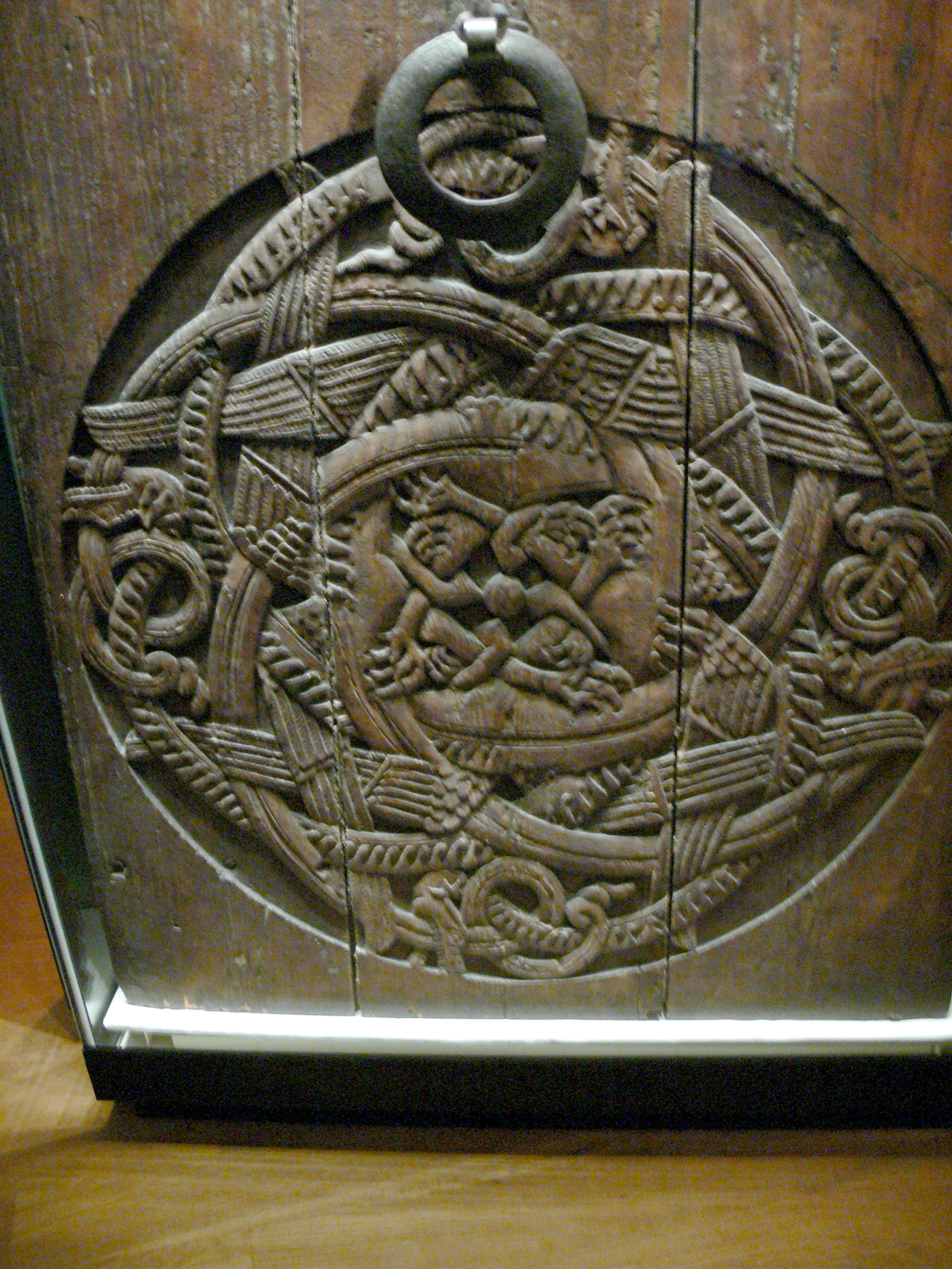 National Museum of Iceland, Reykjavik. The Valþjofstaður door ( ca.1200 AD ): Lower rondell - four interlaced dragons.